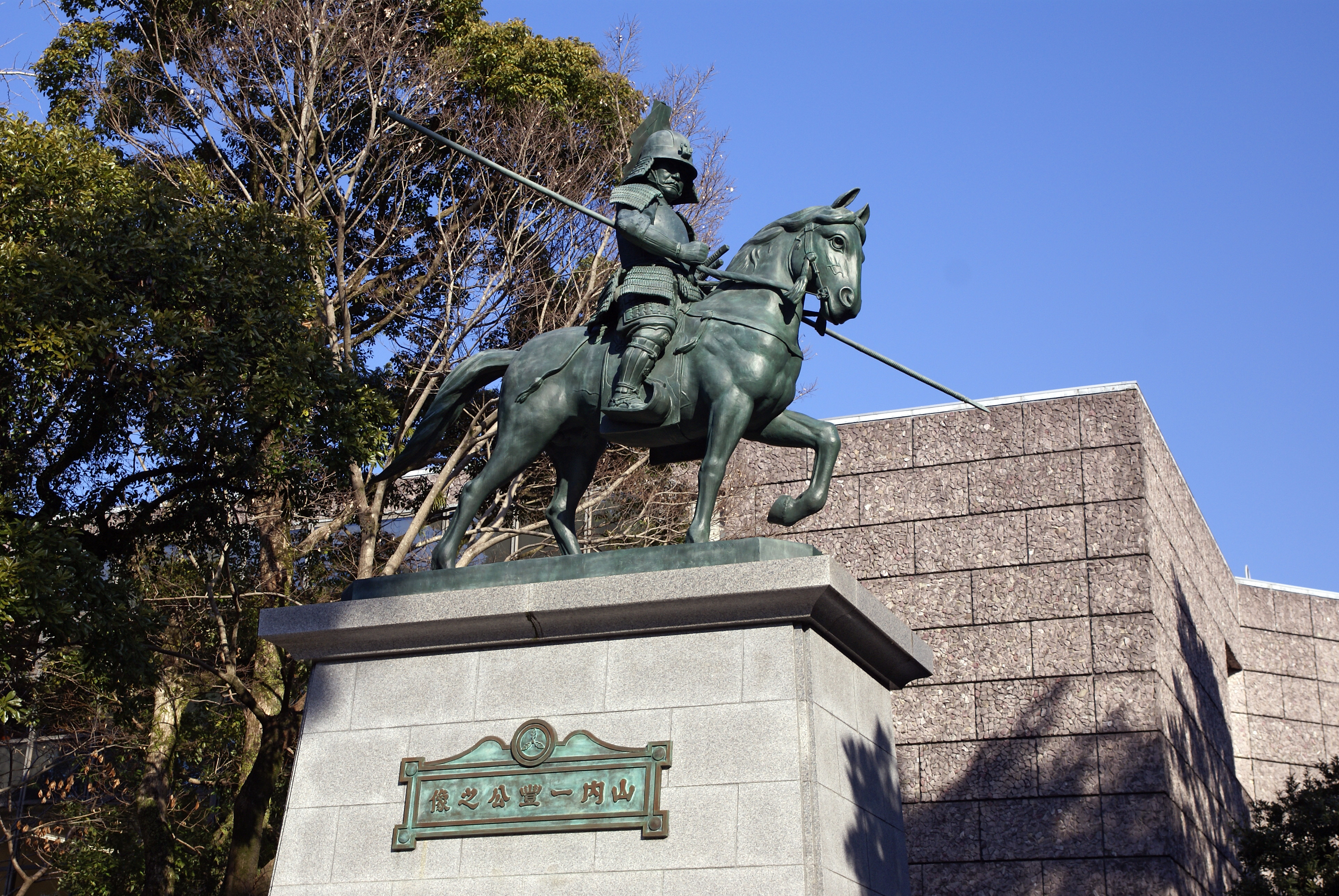 A statue of Yamauchi Katsutoyo in Kochi Castle, Kochi, Kochi prefecture, Japan